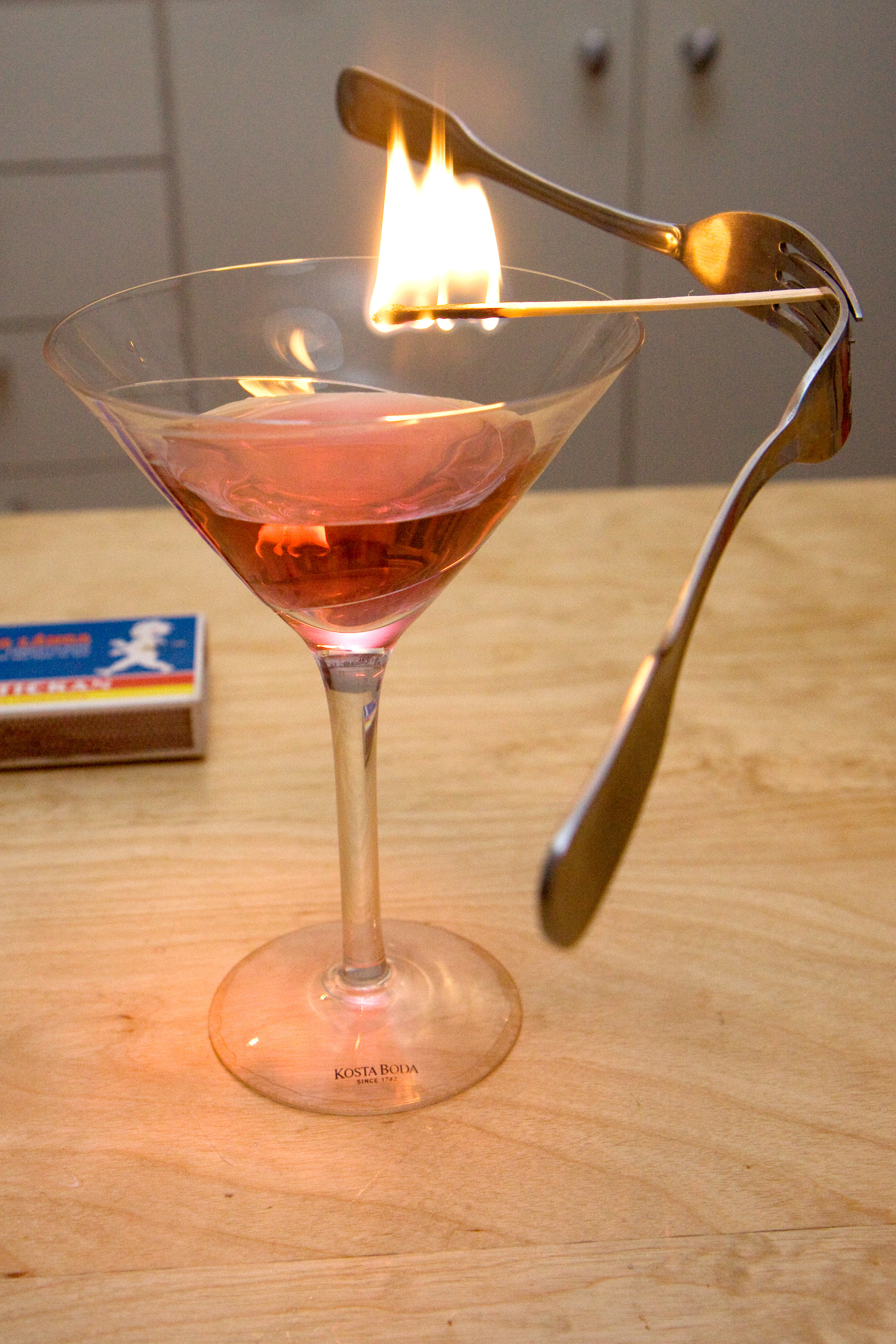 A party trick with two forks, a match and a glass.